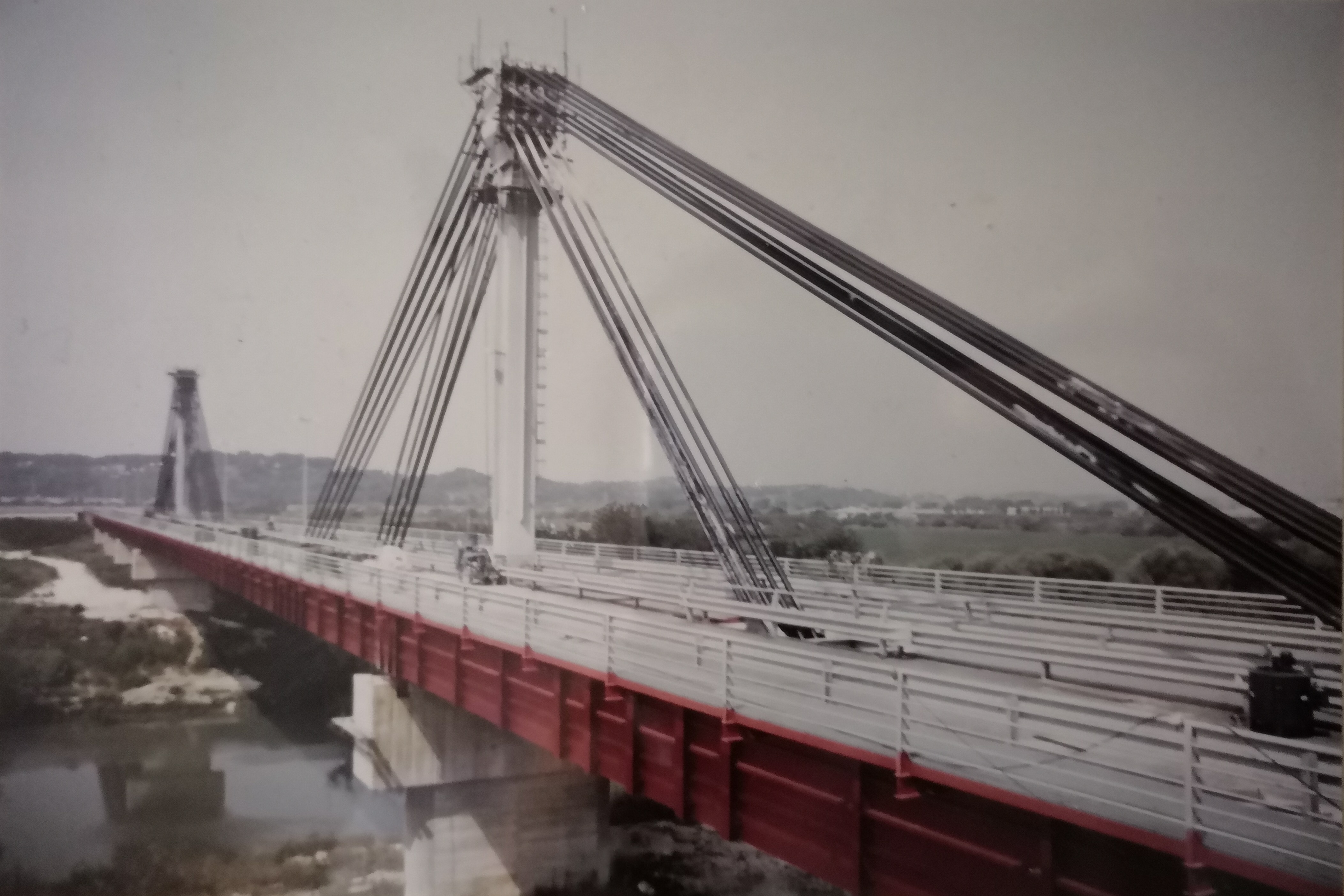 Water Bridge over Tiber